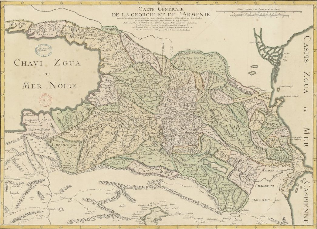 Carte générale de la Georgie et de l'Arménie / dessinée à Petersbourg en 1738 d'après les cartes, mémoires, mesures et observations des gens du pays ; traduit du géorgien en françois par le secrétaire du roi de Georgie ; publiée en 1766 par M. Joseph Nicolas Del'Isle.